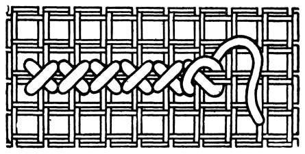 Cross stitch in canvaswork